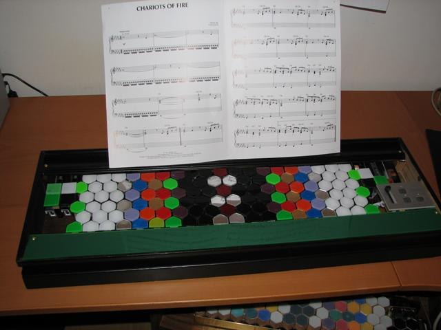 A homemade jammer. The note assignment is Green notes are C, the Red are G. Black keys are the Flat notes, white keys are the sharps (note that sharps and flats are seperate keys on this keyboard